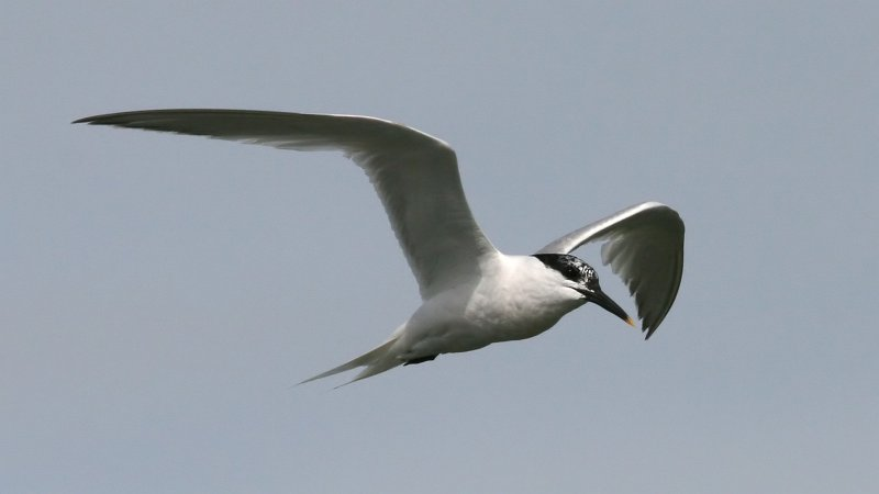 Sandwich Tern (Sterna sandvicensis)